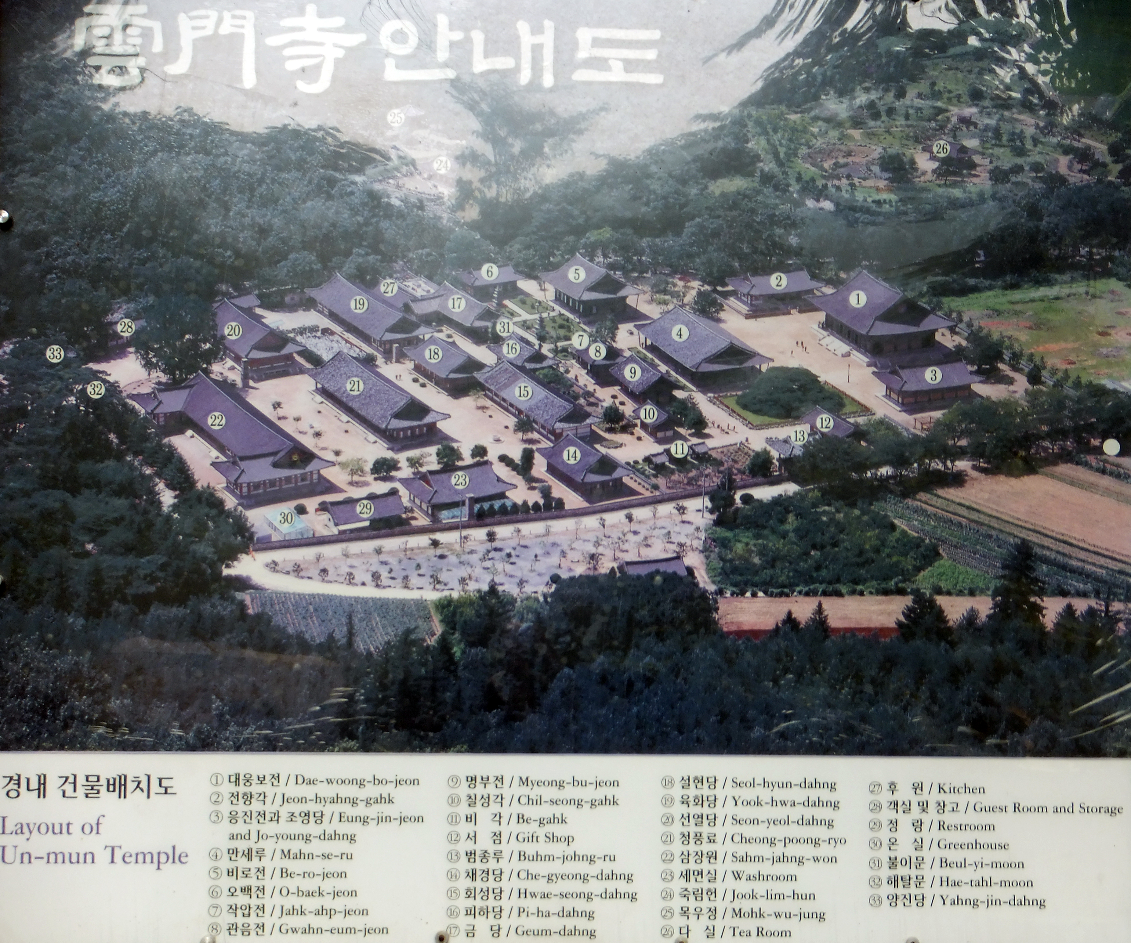 Lay out of the Unmun-Temple (Unmunsa) in South Korea, Province Gyeongsangbuk-do.